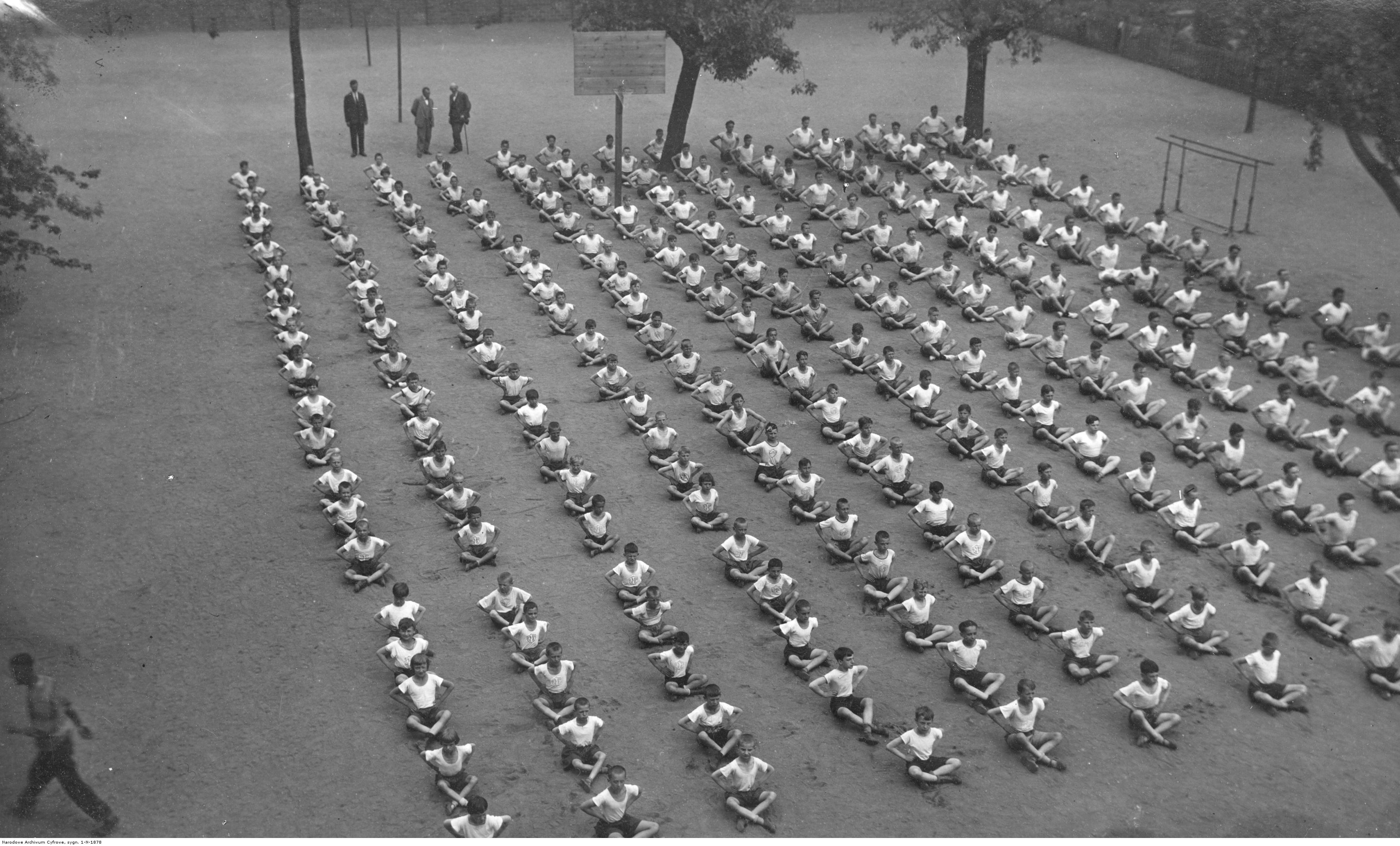 Students of Miejskie Gimnazjum im. Mikołaja Kopernika in Bydgoszcz during physical education classes (1920-1939)